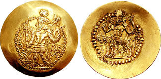 Coin of Bahram I/Varahran I, the ruler of the Indo-Sasanians during the 4th-century. Not to be confused with the Sasanian ruler Bahram I (r. 271 – 274).